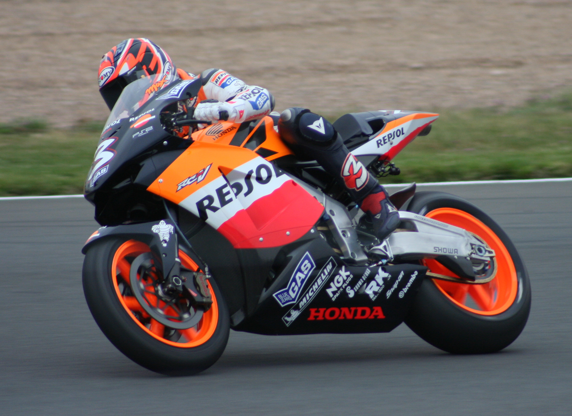 Max Biaggi, riding his Repsol Honda at the 2005 British Grand Prix in Donington Park.